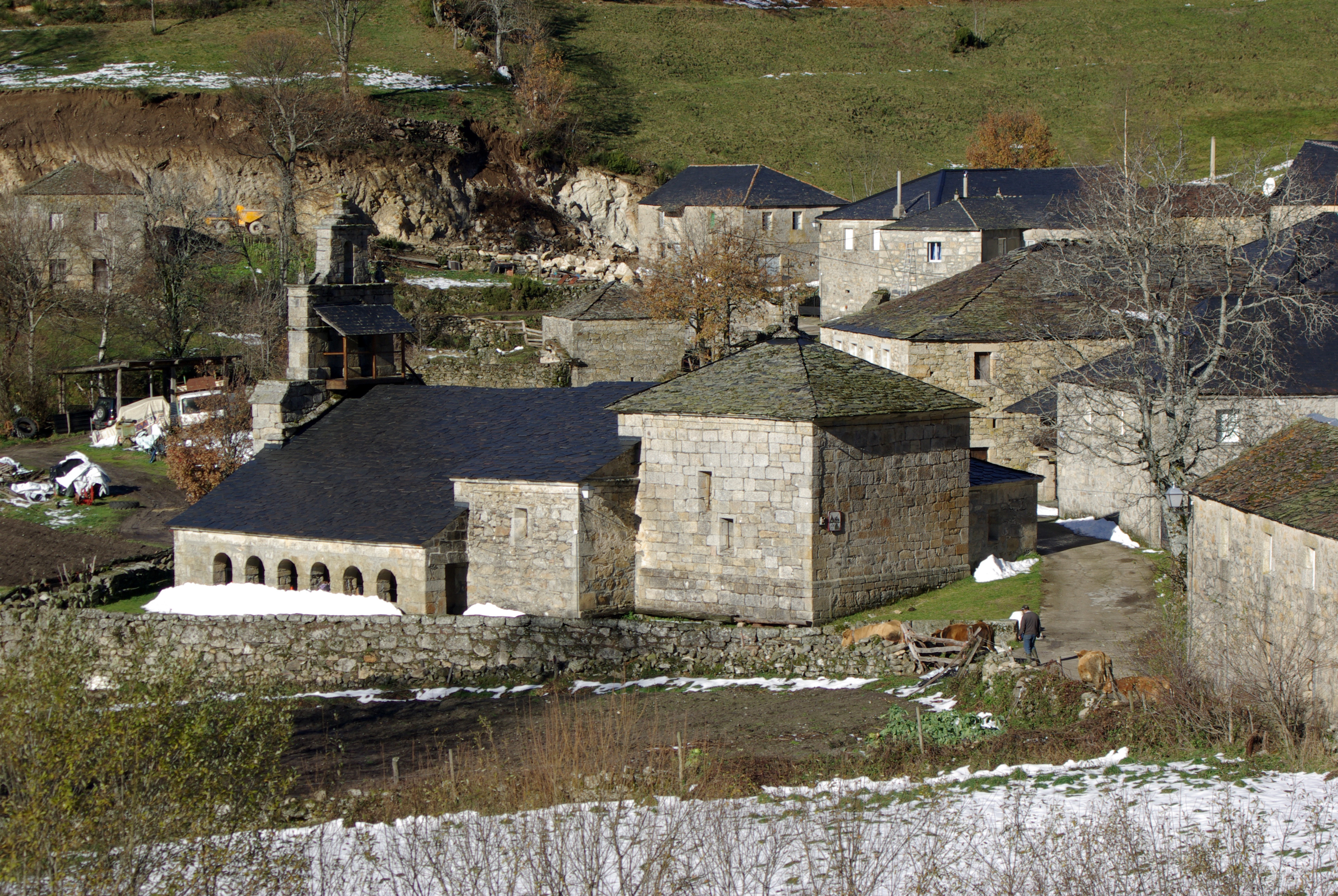 Parish church of Suarbol, Candín (León, Spain)